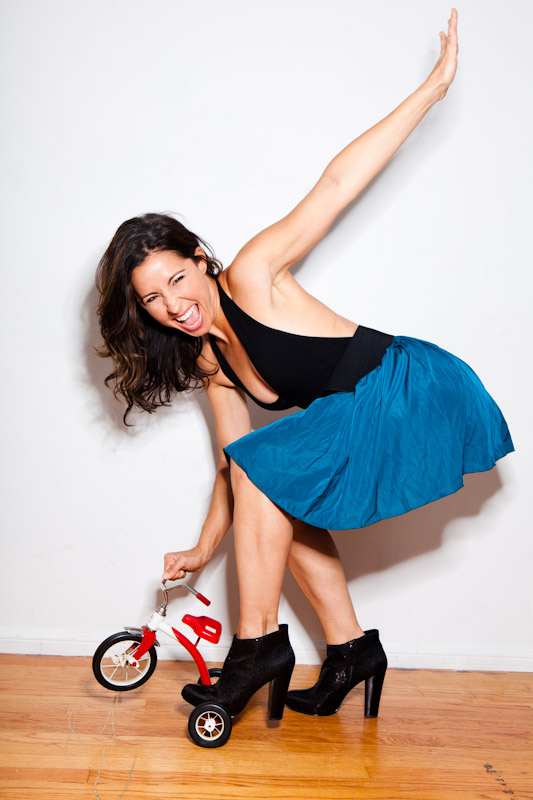 Mini Bike